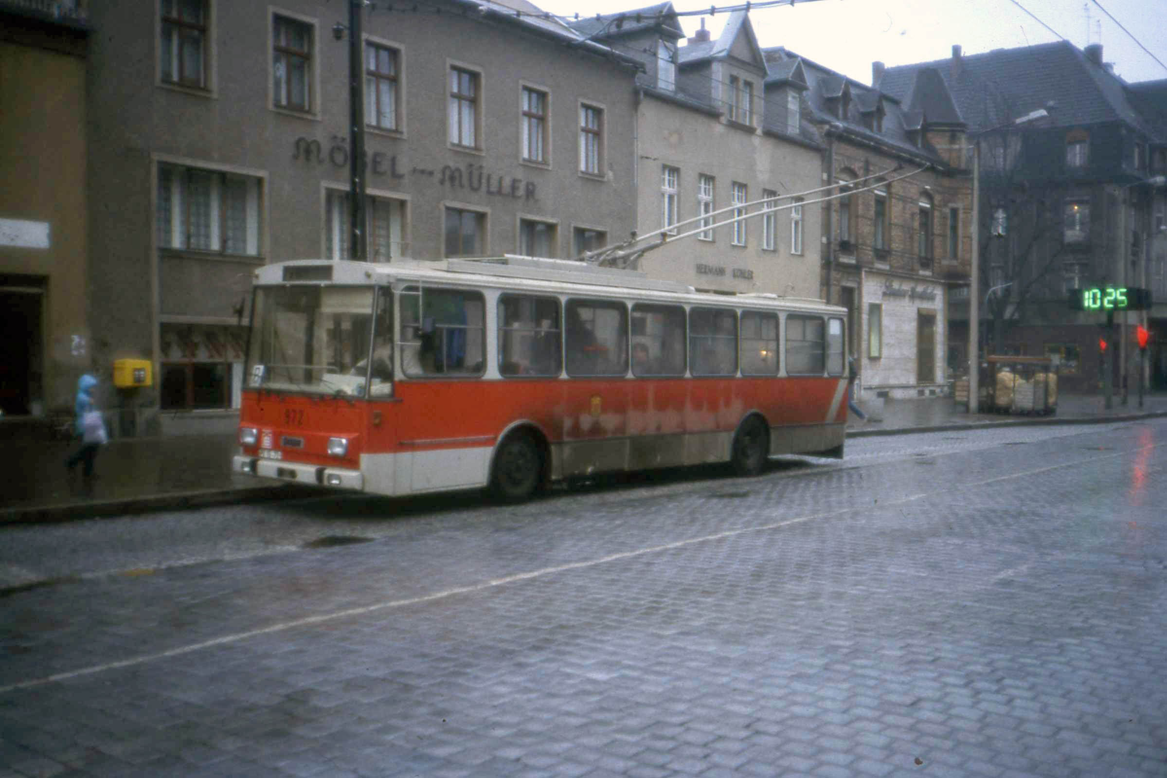 Škoda 14Tr trolleybus in Potsdam, former East Germany